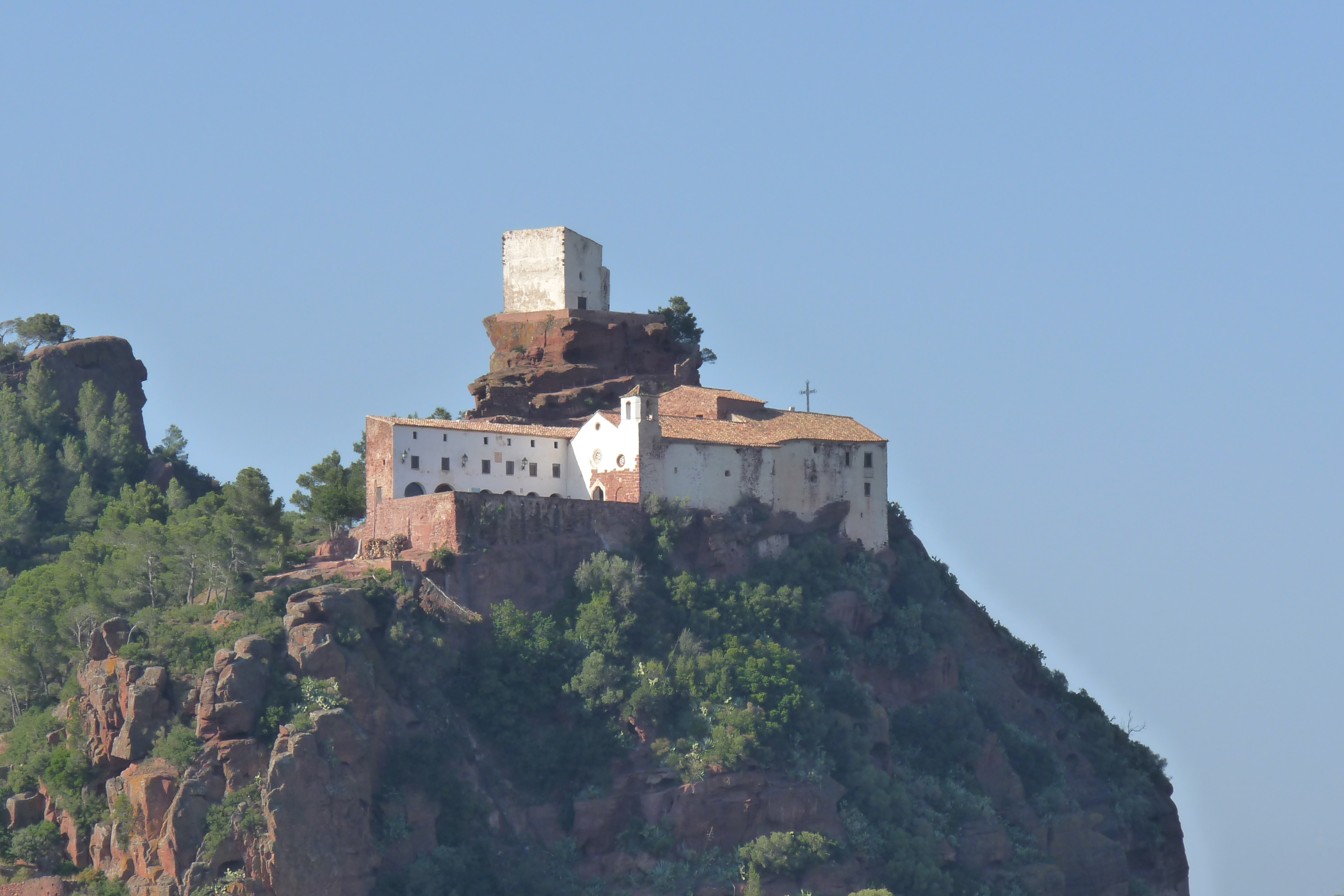 Sanctuary of Virgin of la Roca with the chapel of Sant Ramon on top